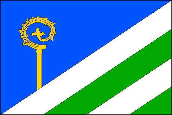 Flag of Tichá, Nový Jičín District